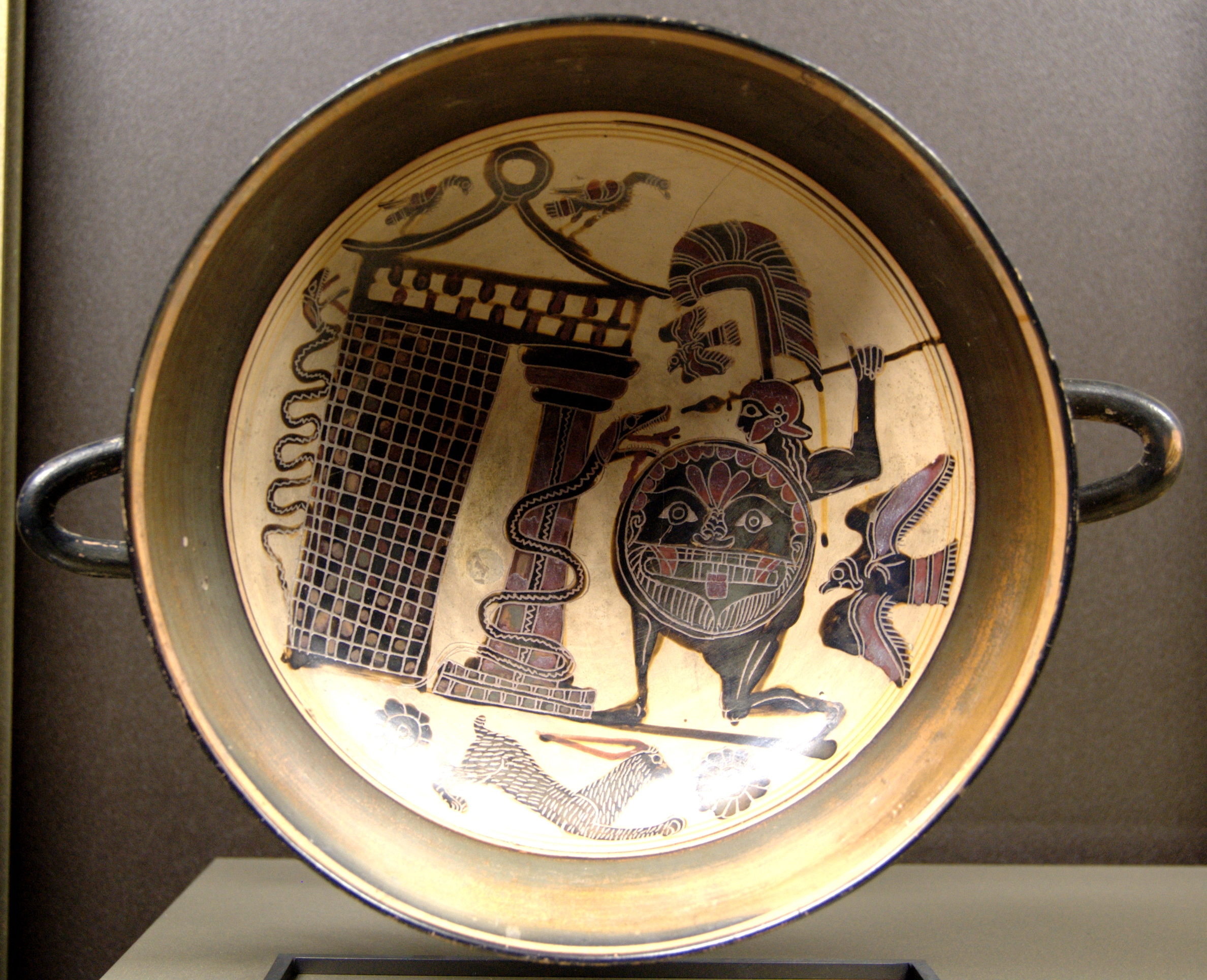 Disputed interpretation: Achilles watching out for Troilus (Louvre notice) or Cadmus fighting the Theban dragon (C.M. Stibbe, Lakonische Vasenmaler des sechsten Jahrhunderts vor Chr., Amsterdam, 1972, p. 170). Laconian black-figure cup, ca. 550 BC–540 BC.